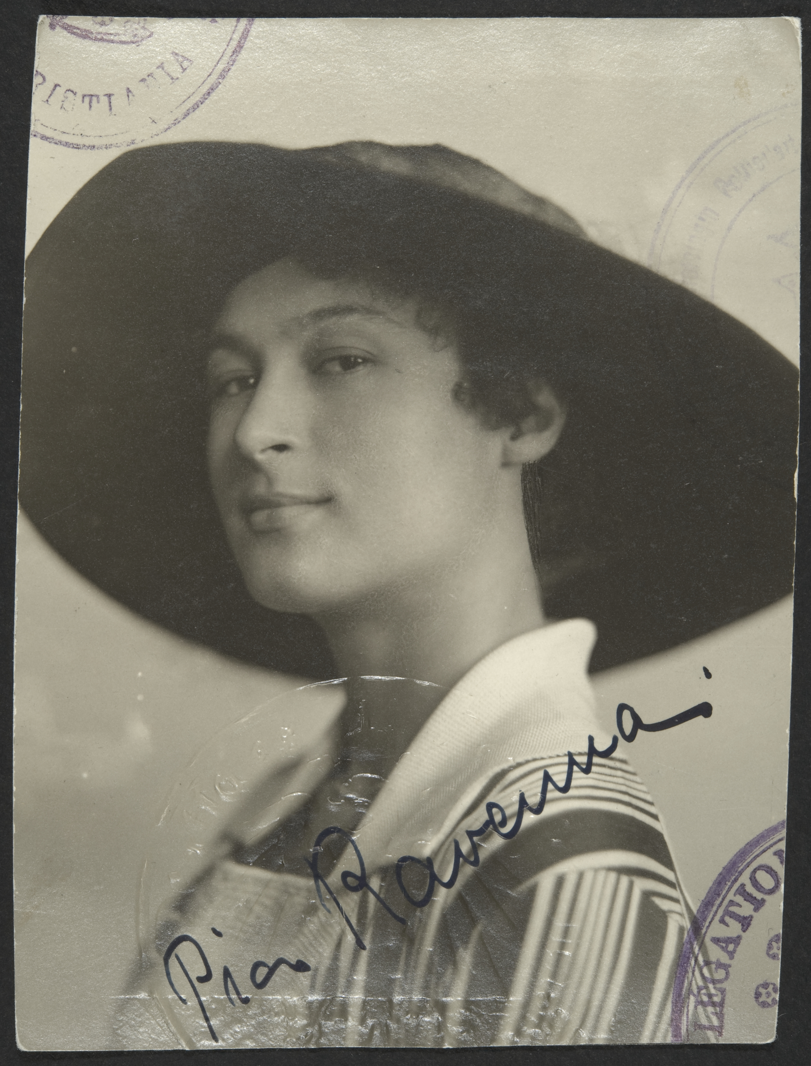 Finnish Opera singer Pia Ravenna in the 1920s